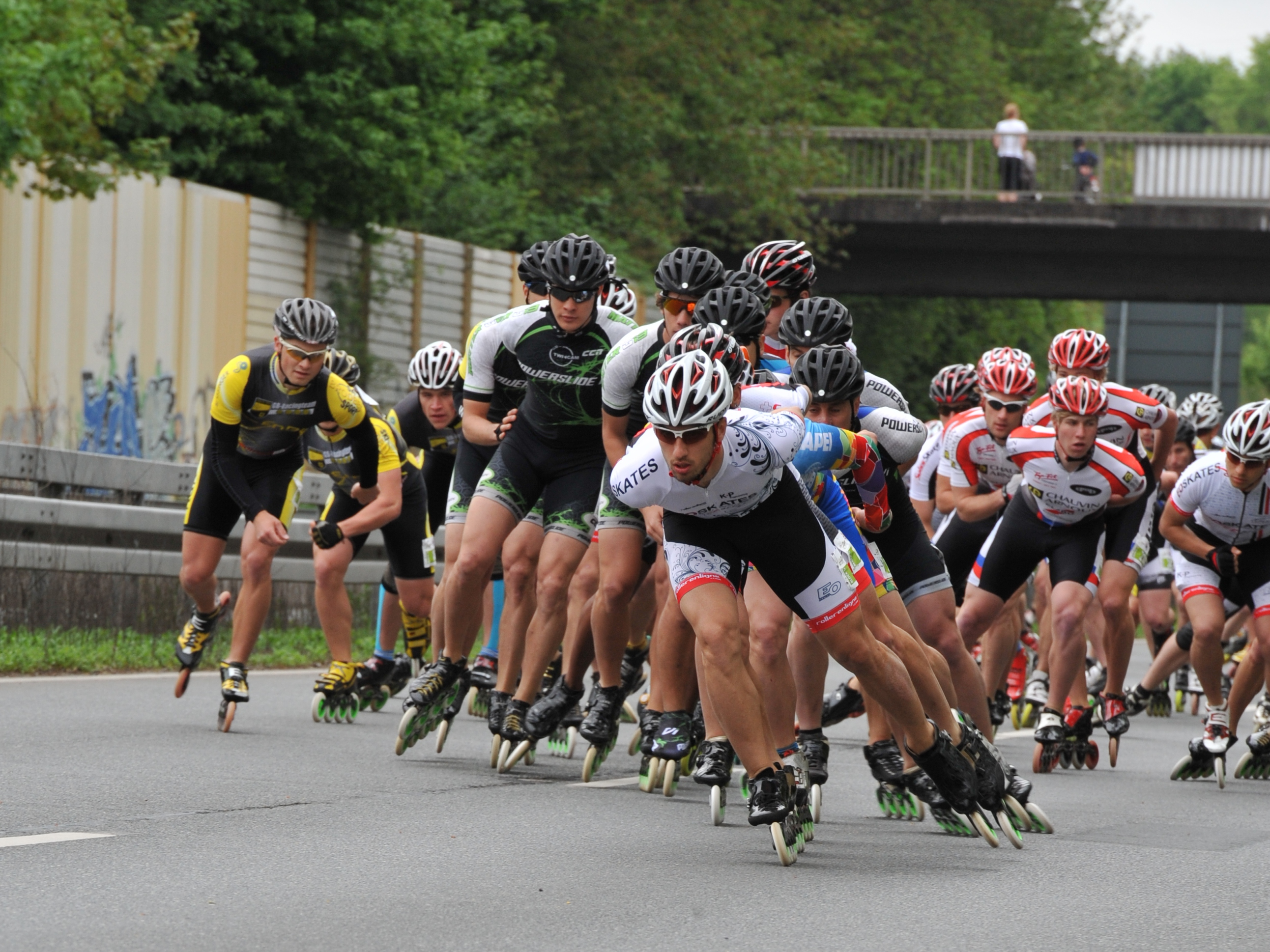 Rhein-Main Skate-Challenge 2012: Marathon Speed/Teams Männer ca. bei km 1 The making of this work was supported by Wikimedia Austria. For other files made with the support of Wikimedia Austria, please see the category Supported by Wikimedia Österreich.